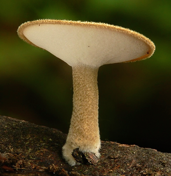 Maiporling (Polyporus ciliatus)